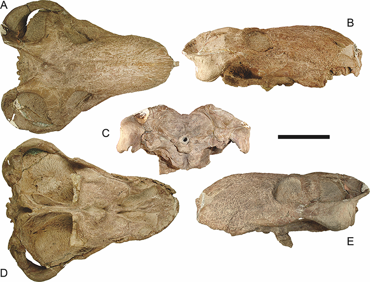 Referred skull (UMZC T891) of Ruhuhucerberus haughtoni (Huene, 1950) in (A) dorsal, (B) right lateral, (C) occipital, (D) ventral, and (E) left lateral view. Holotype of Ruhuhucerberus terror Maisch, 2002. Scale bar equals 10 cm.